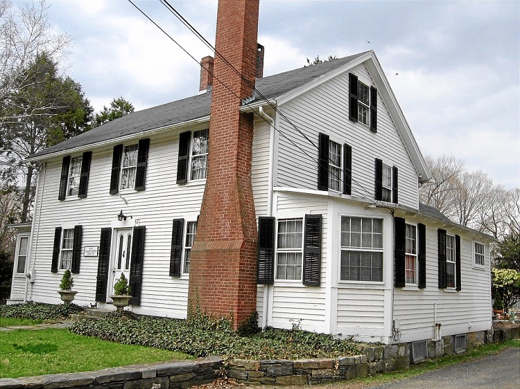 The Ralph Smith House, Middle Haddam (East Hampton), Connecticut; part of the Middle Haddam Historic District.